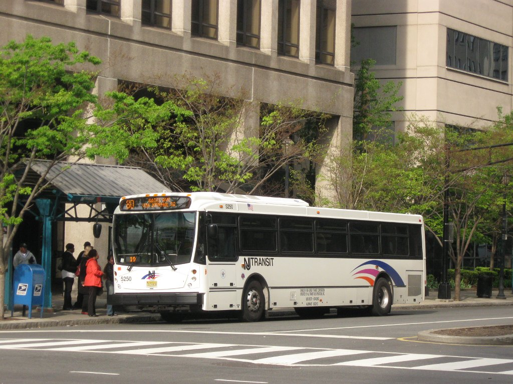 New Jersey Transit NABI suburban #5250 picks up customers on the #80 in downtown Jersey City, due west to Greenville in the same.